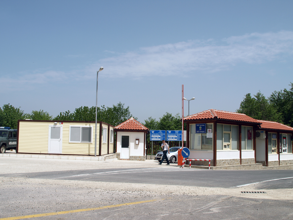 Zlatograd-Thermessos Border checkpoint